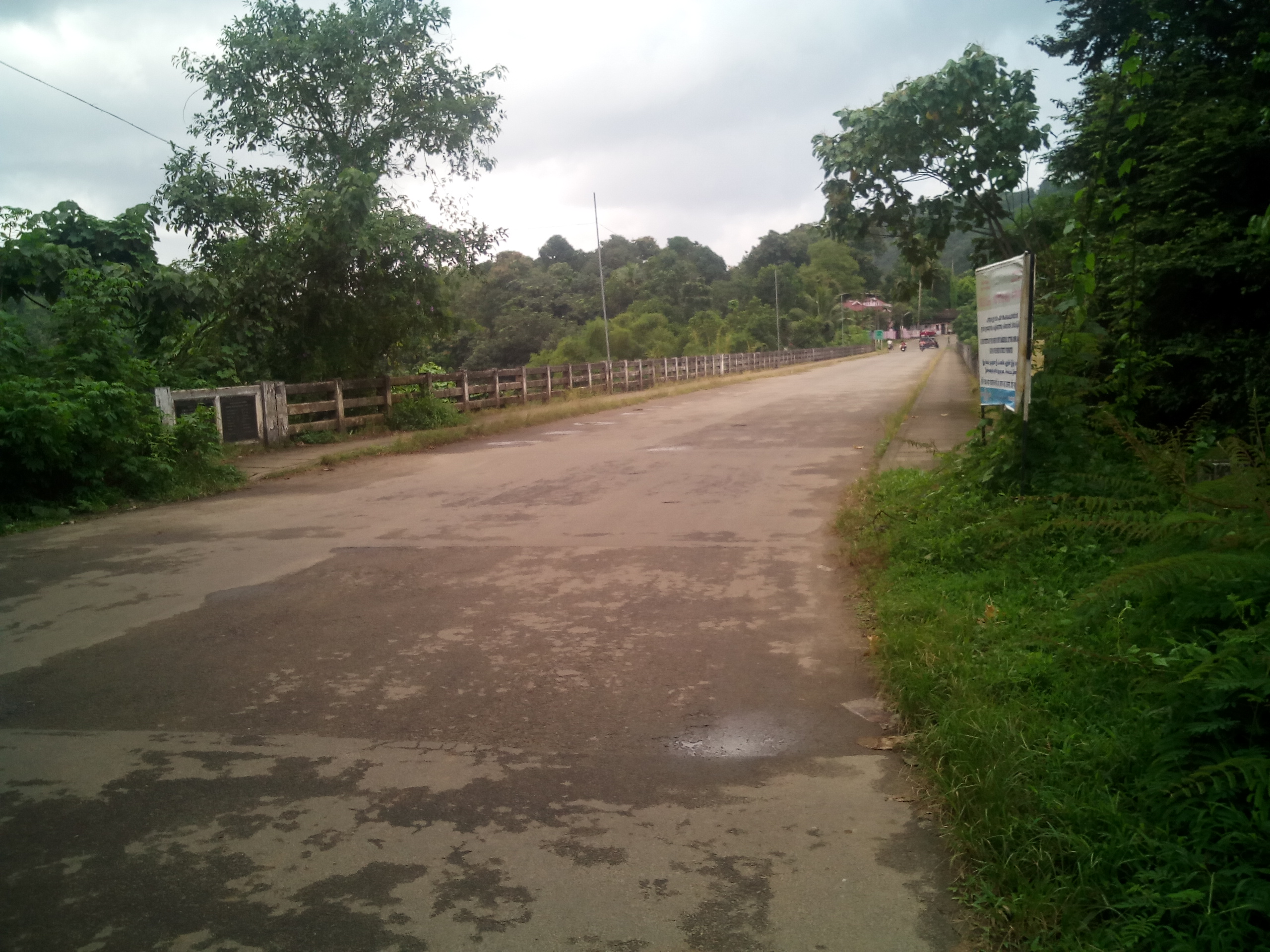 vatasserikara new bridge